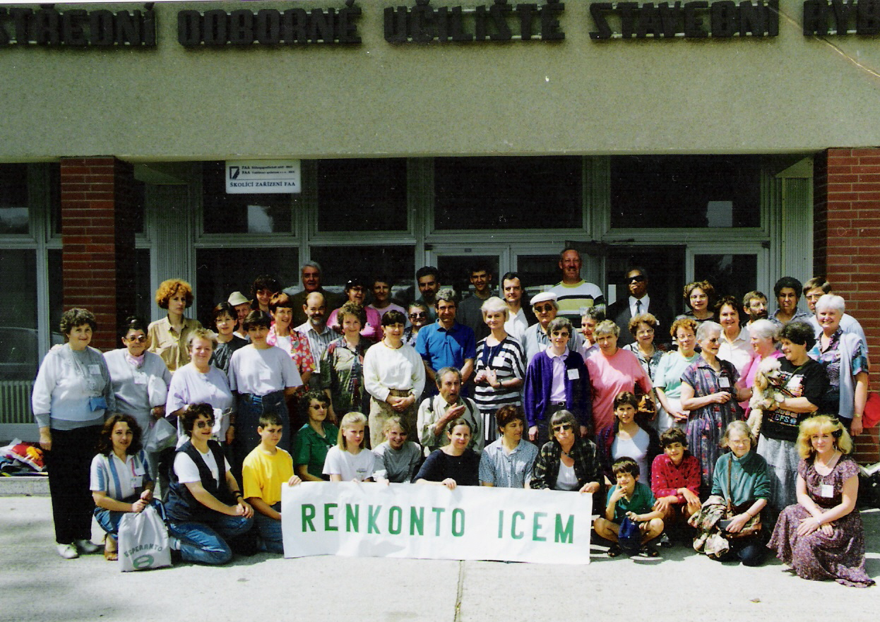 Meeting ICEM Pardubice, SOU stavební Rybitví Česky: Setkání ICEM (Institut Coopératif de l'École Moderne) v Rybitví u Pardubic